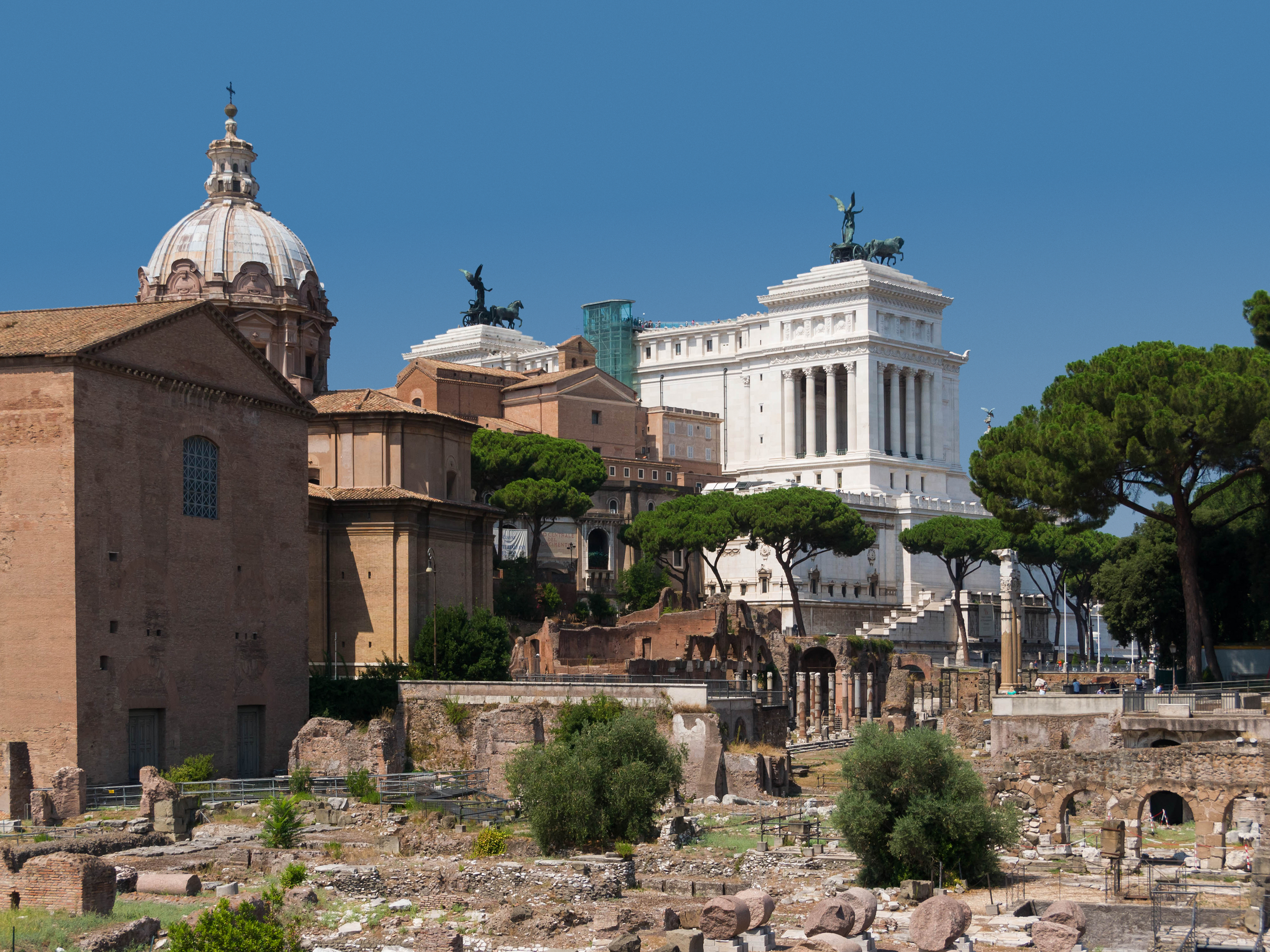 A part of the Forum Romanum, with the "Curia", the dome of the Santi Luca e Martina church, the Risorgimento museum, and the back of the Vittoriano. Rome, Italy.